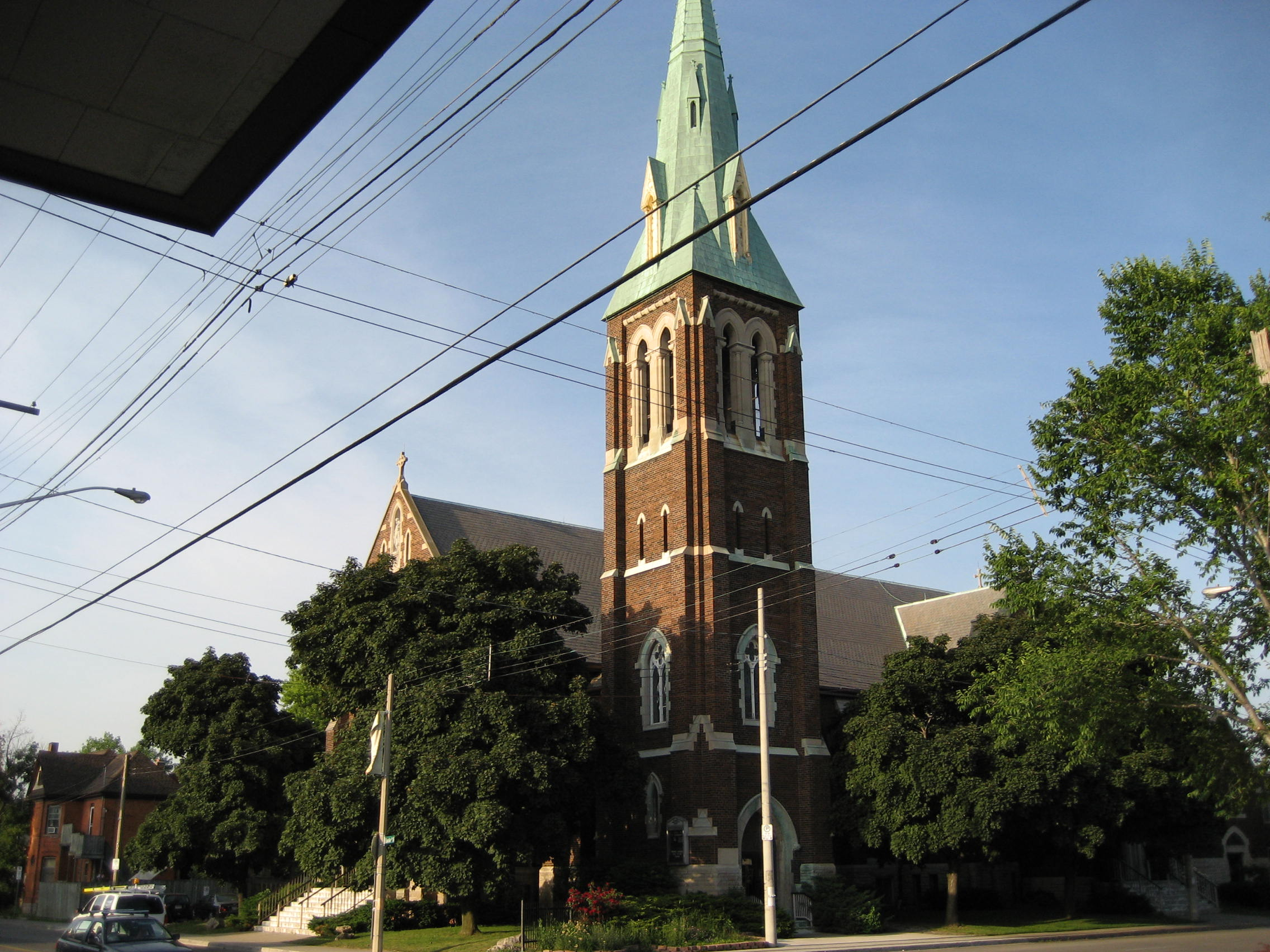 St. Joseph's Roman Catholic Church, Locke Street South, Hamilton, Ontario